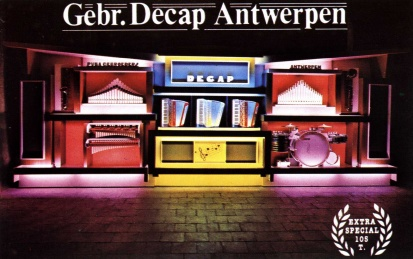 A "105-key Extra Special Midi" organ by Gebroeders Decap Antwerpen NV Een 105-toets Extra Special Midi-dansorgel van de Gebroeders Decap Antwerpen NV